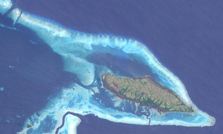 This image (Landsat7) shows Yeina Island in the Louisiade Archipelago, Papua New Guinea. In the lower left corner it shows also the small Islet Osasai.